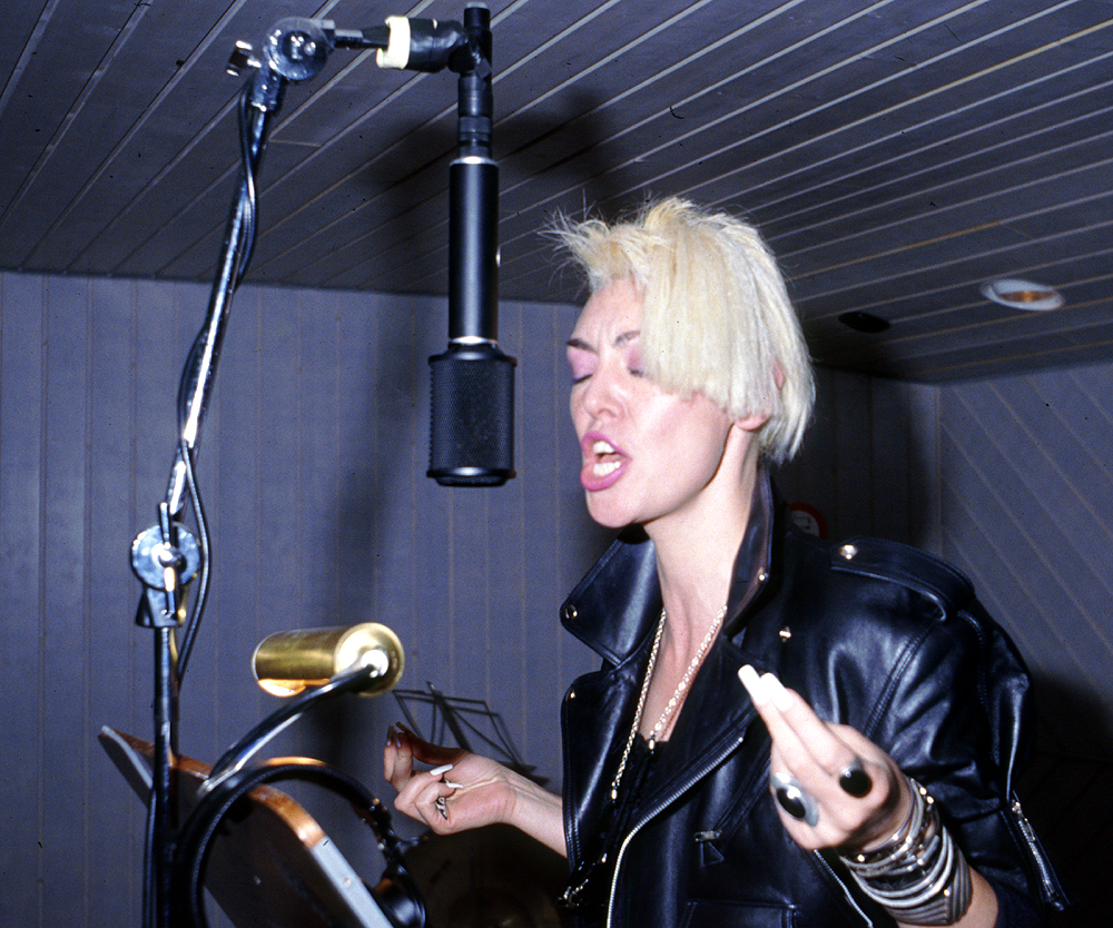 Eve Gallagher rececording her demo-tape "Love Come Down" at Greenwood-Studios in Nunningen, switzerland in June 1988